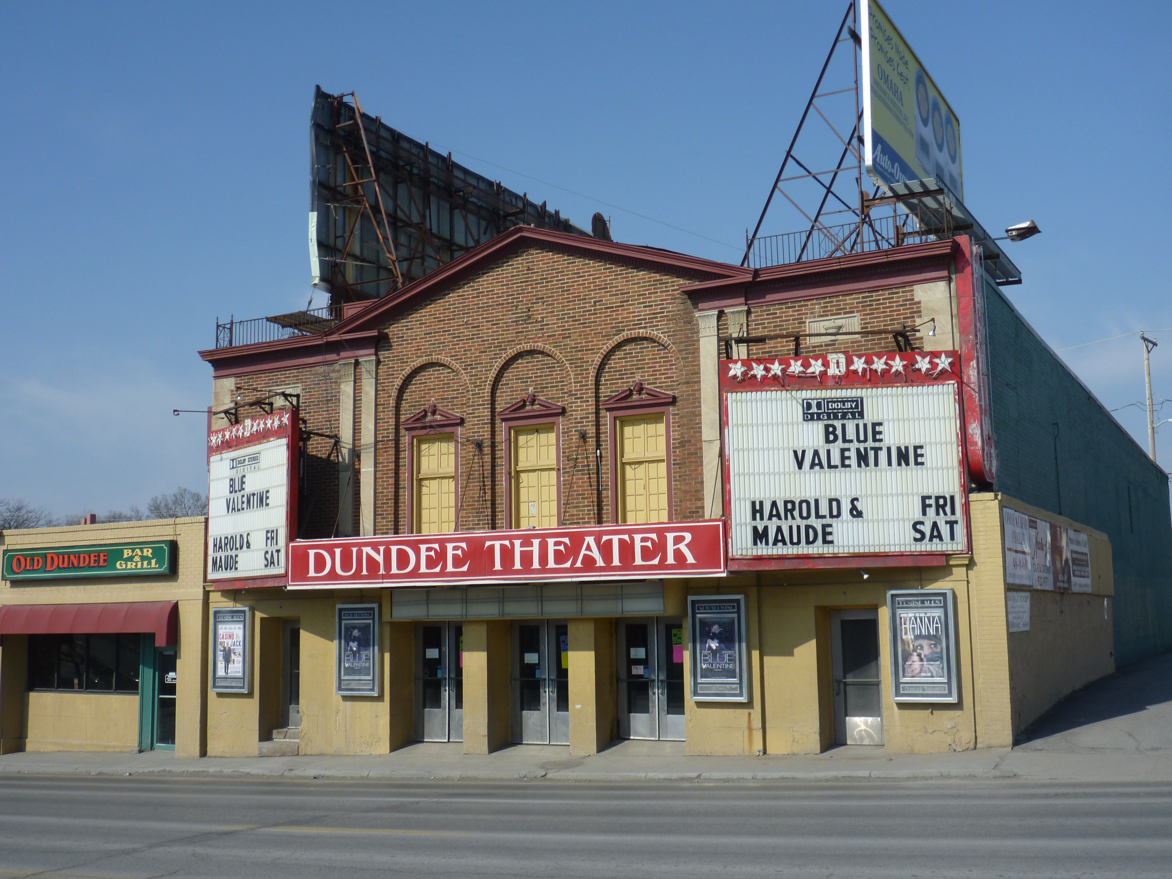 Exterior of the Dundee Theater in Omaha, Nebraska